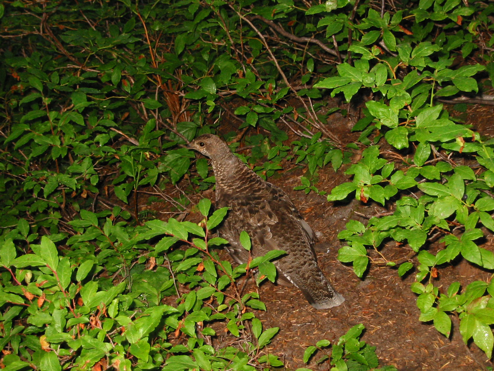 Sooty Grouse female IUCN: Dendragapus fuliginosus (Ridgway, 1873) (Least Concern)